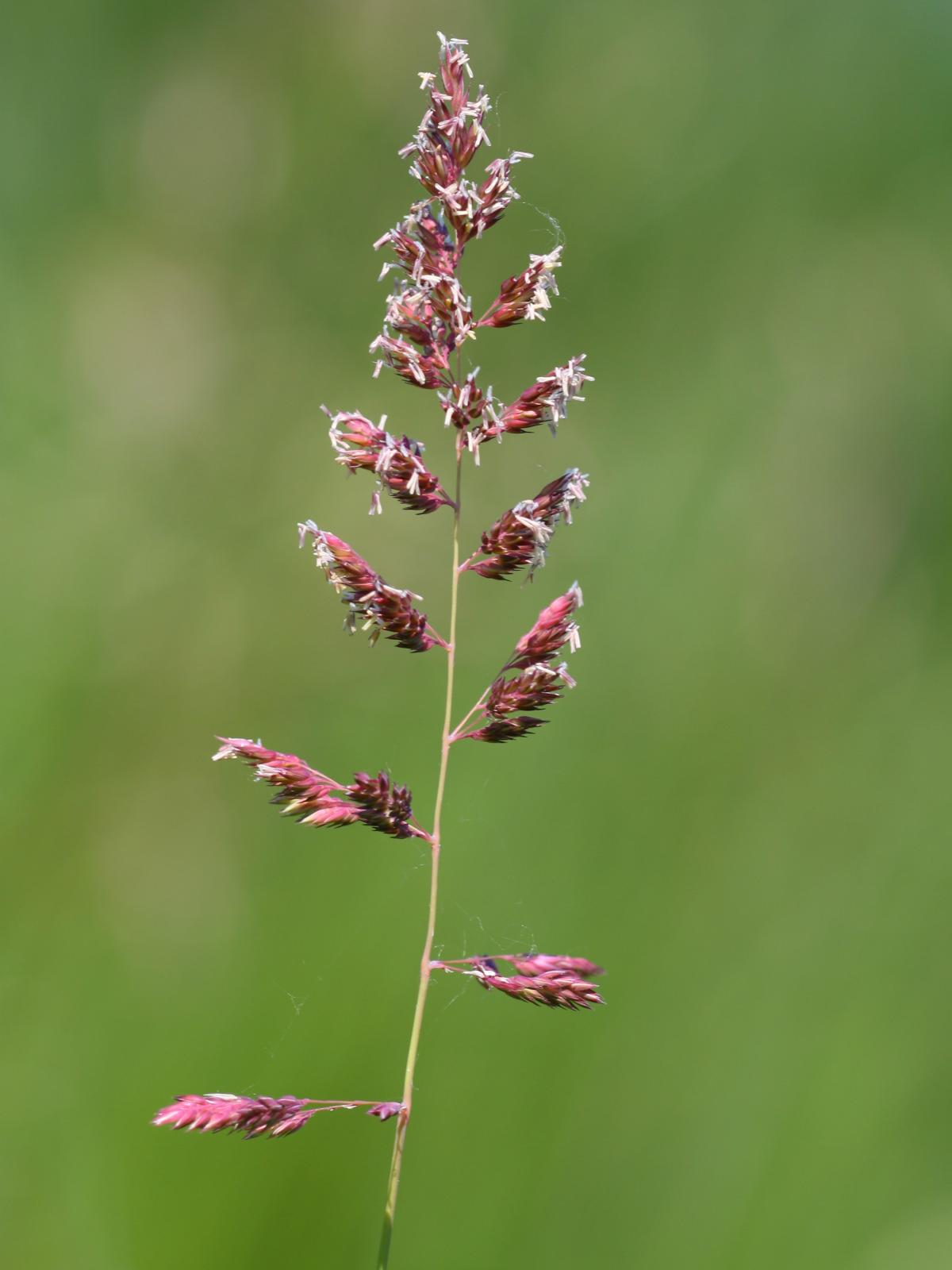 Rohr-Glanzgras (Phalaris arundinacea)